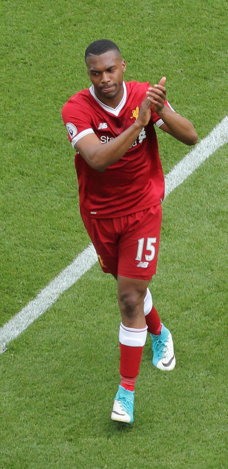 The last time we'll see him in a Liverpool shirt?